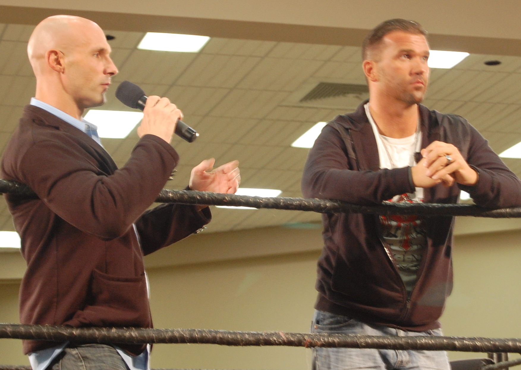 Christopher Daniels and Frankie Kazarian, known as The Addiction, a tag team in Ring of Honor wrestling. Taken at the Q&A in San Antonio, Texas, immediately prior to Glory by Honor XIII.